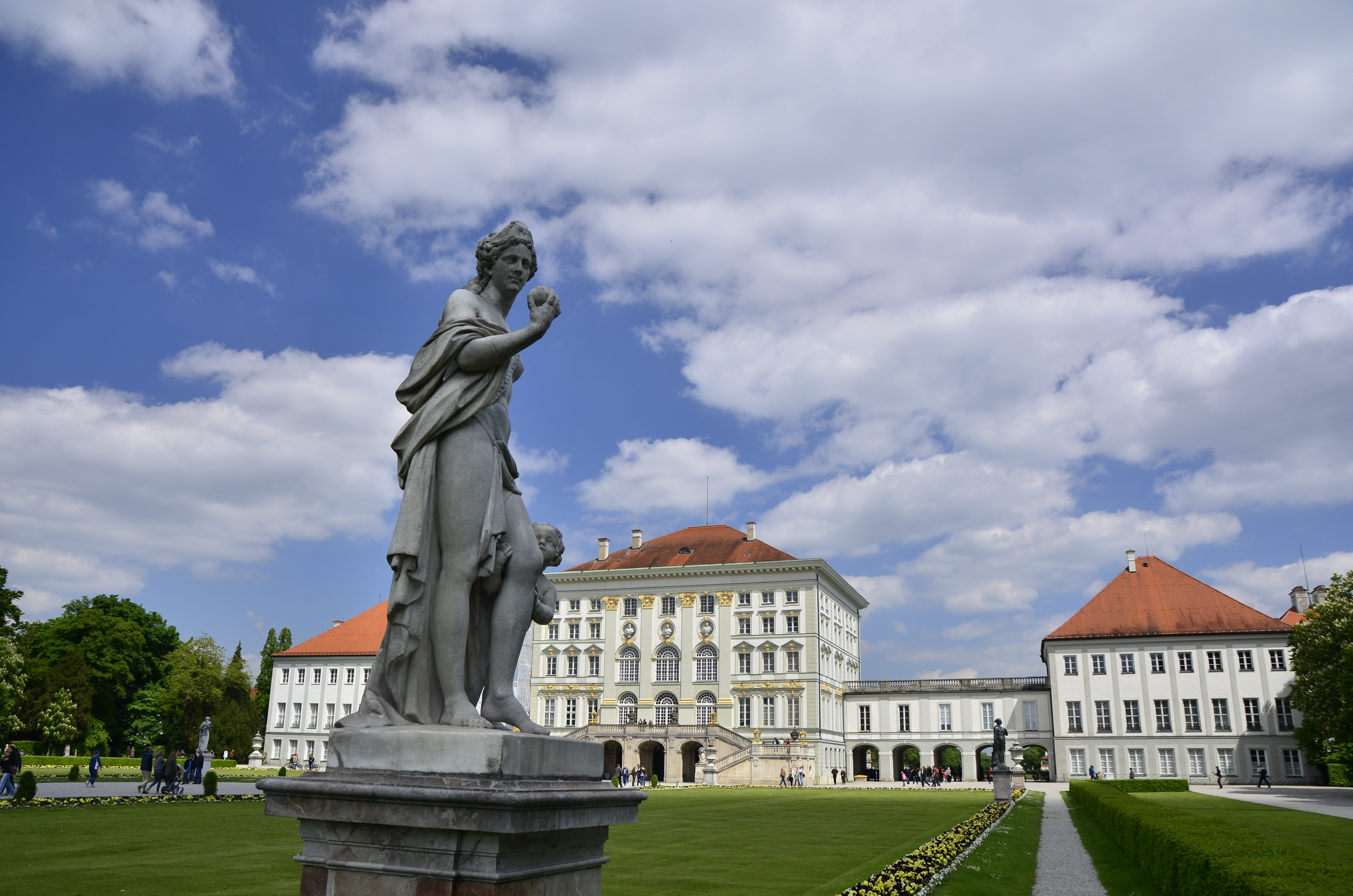 Nymphenburg Castle in Munich; Parc